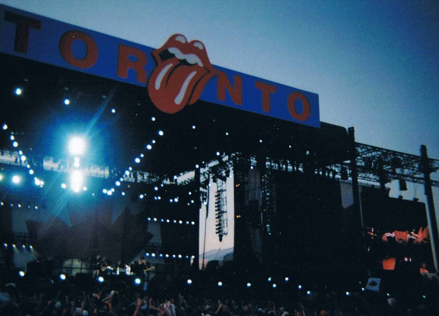 Sarstock/Rolling Stones & Friends Toronto August 2003